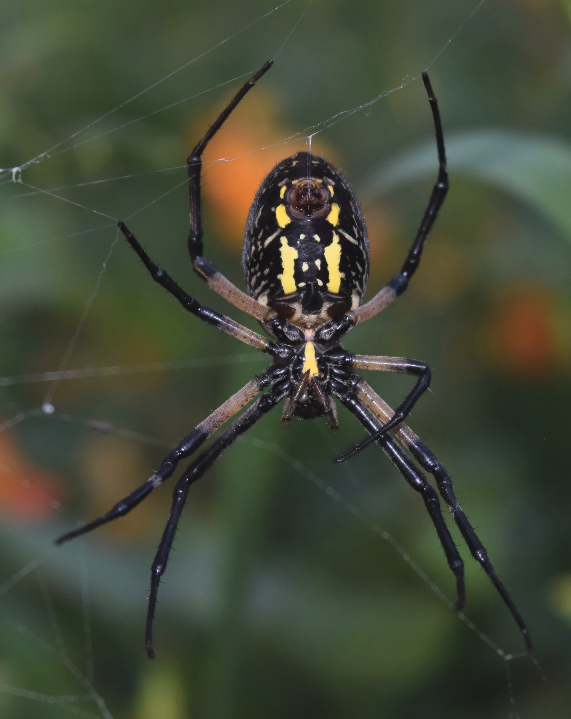 Ventral view of a female yellow garden spider (Argiope aurantia) building a web. This photo was taken in a protected area in Canada, Wikidata item Rouge National Urban Park (Q26810464)